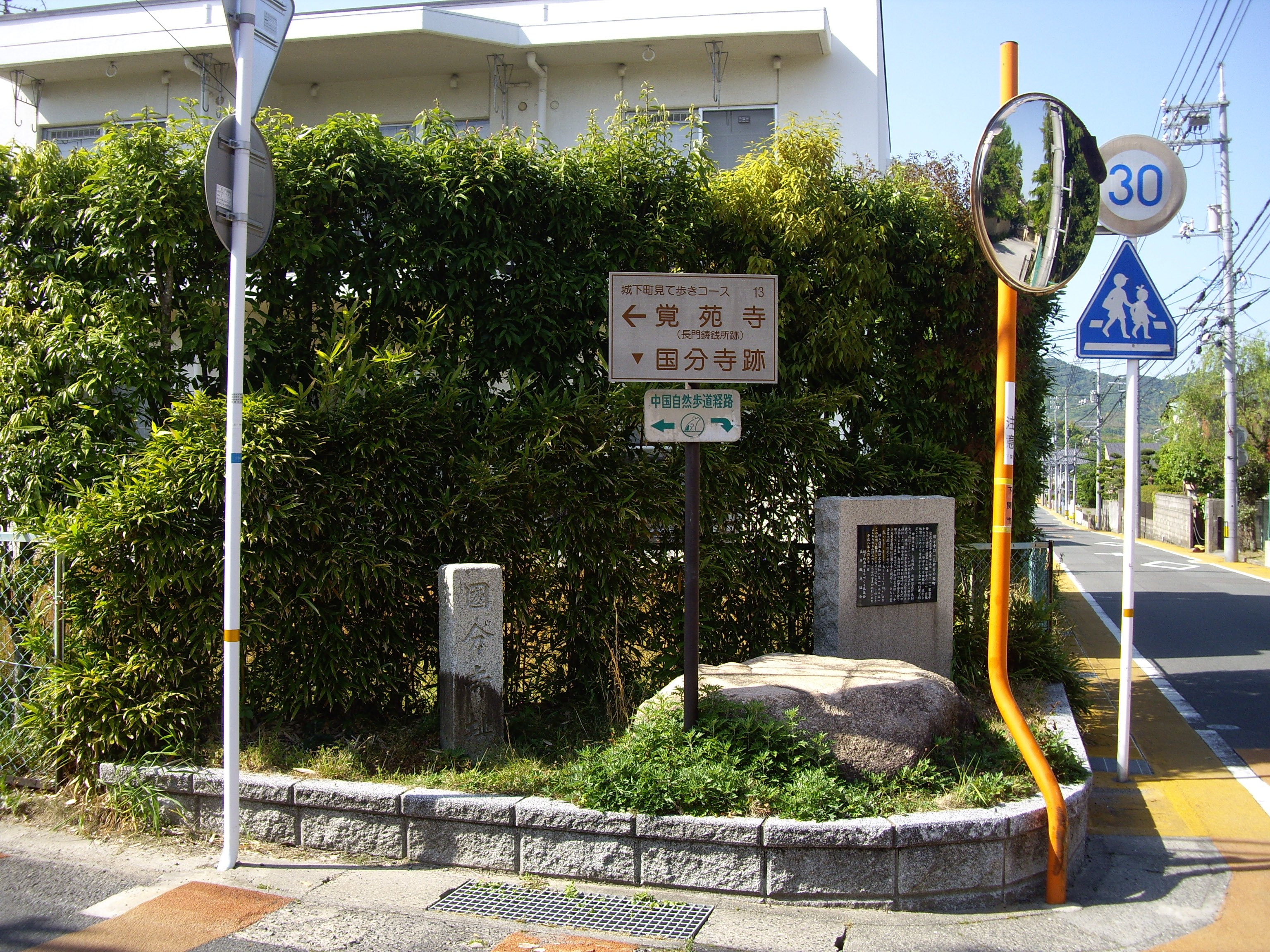 The ruins of Nagato Kokubunji Temple, in Shimonoseki, Yamaguchi Prefecture, Japan